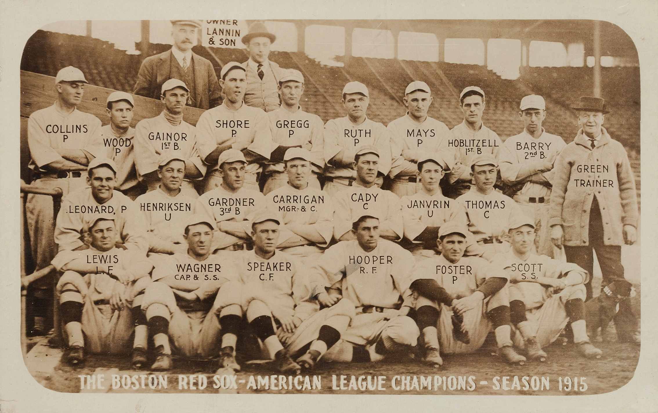 1915 Boston Red Sox with Rookie Babe Ruth. This real photo postcard greeted hometown fans at Braves Field for the third and fourth games of the World Series, the National League park borrowed due to a seating capacity superior to the newly-constructed Fenway Park. Text at the bottom edge of the team image suggests production prior to the team's World Championship realization, reading, "The Boston Red Sox--American League Champions--Season 1915." Each Red Sox player is pictured in the classic team shot, and identified with surname and position in bold printed text. We find Ruth at center of the back row.